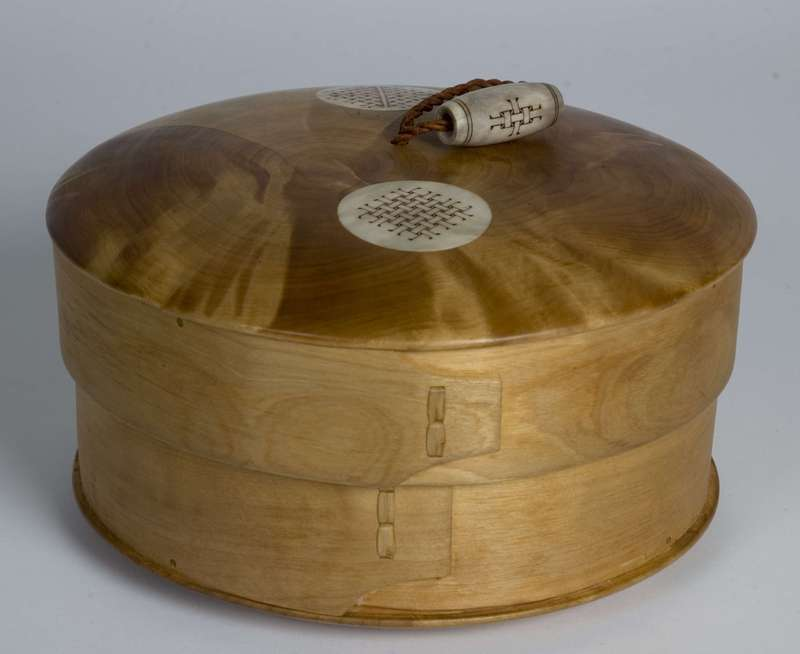 Jewelry box made by sámi craftsman (duojár) Olav L. Dikkanen from Unjárgga gielda / Nesseby kommune, Norway.